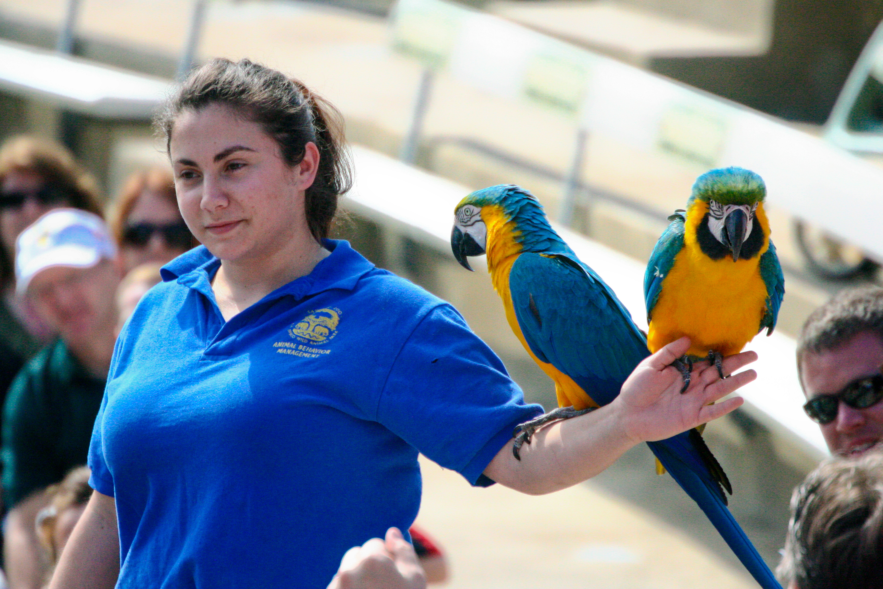 Blue-and-yellow Macaw (also known as the Blue-and-gold Macaw) with bird handler at San Diego Zoo, USA.